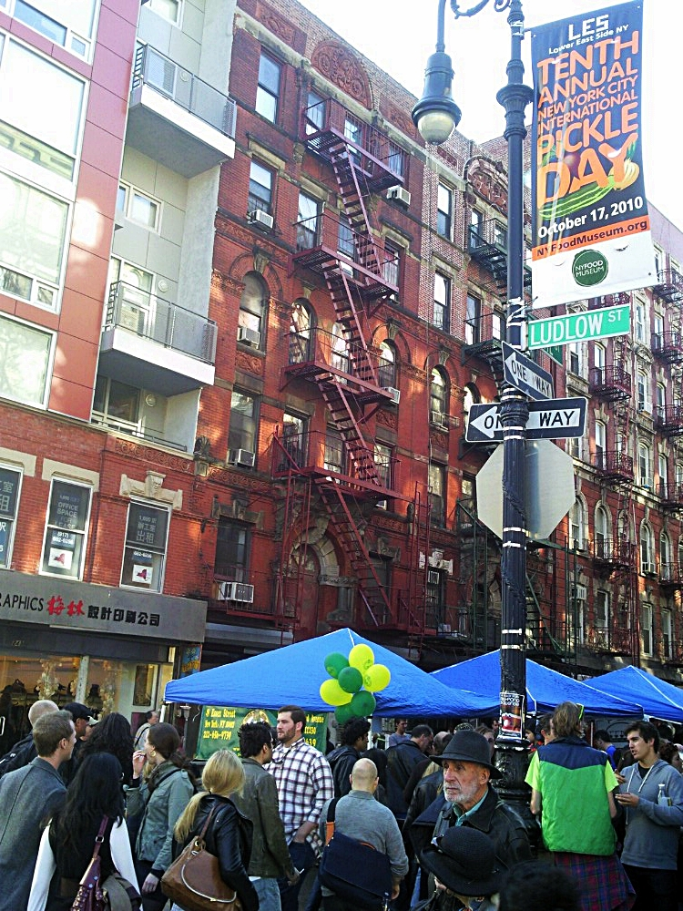 10th annual New York City International Pickle Day festival in Manhattan's Lower East Side on Ludlow Street